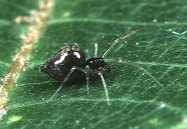 female Coleosoma blandum from Okinawa.